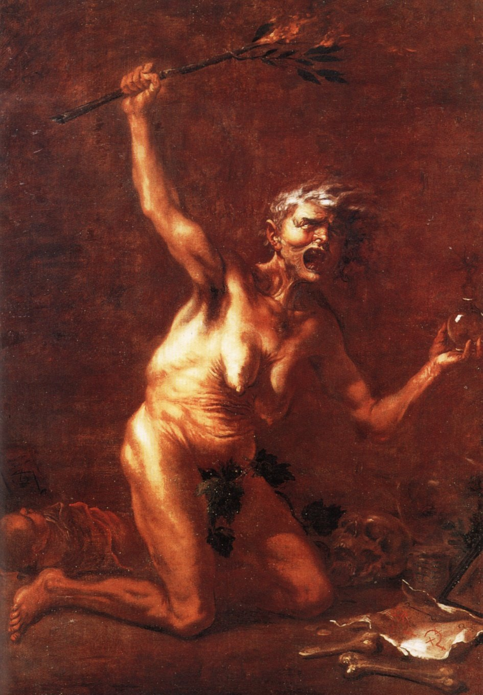 The witch (1640-1649), Salvator Rosa, private collection, Milan.